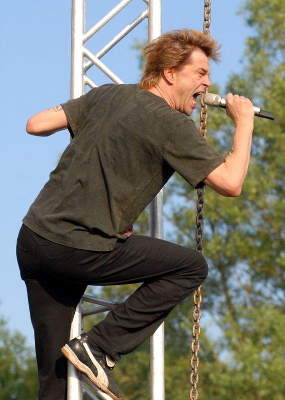 Campino performing at the "Deine Stimme Gegen Armut" (Your Voice Against Poverty) concert in Rostock, Germany